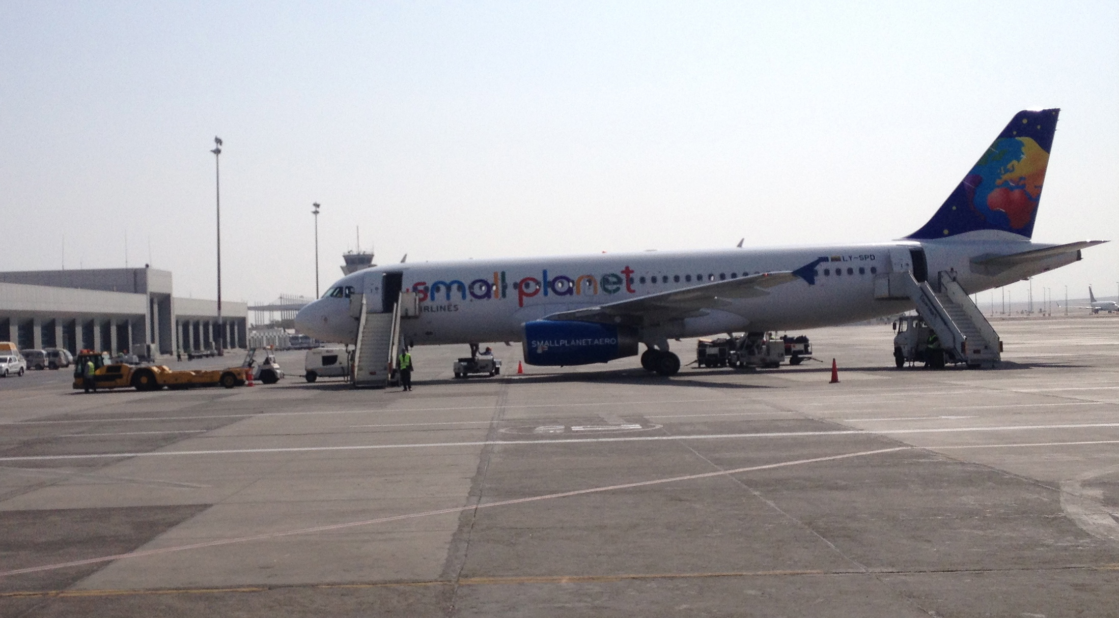 Small planet airlines aircraft Airbus A320-200 LY-SPD in Hurghada International Airport